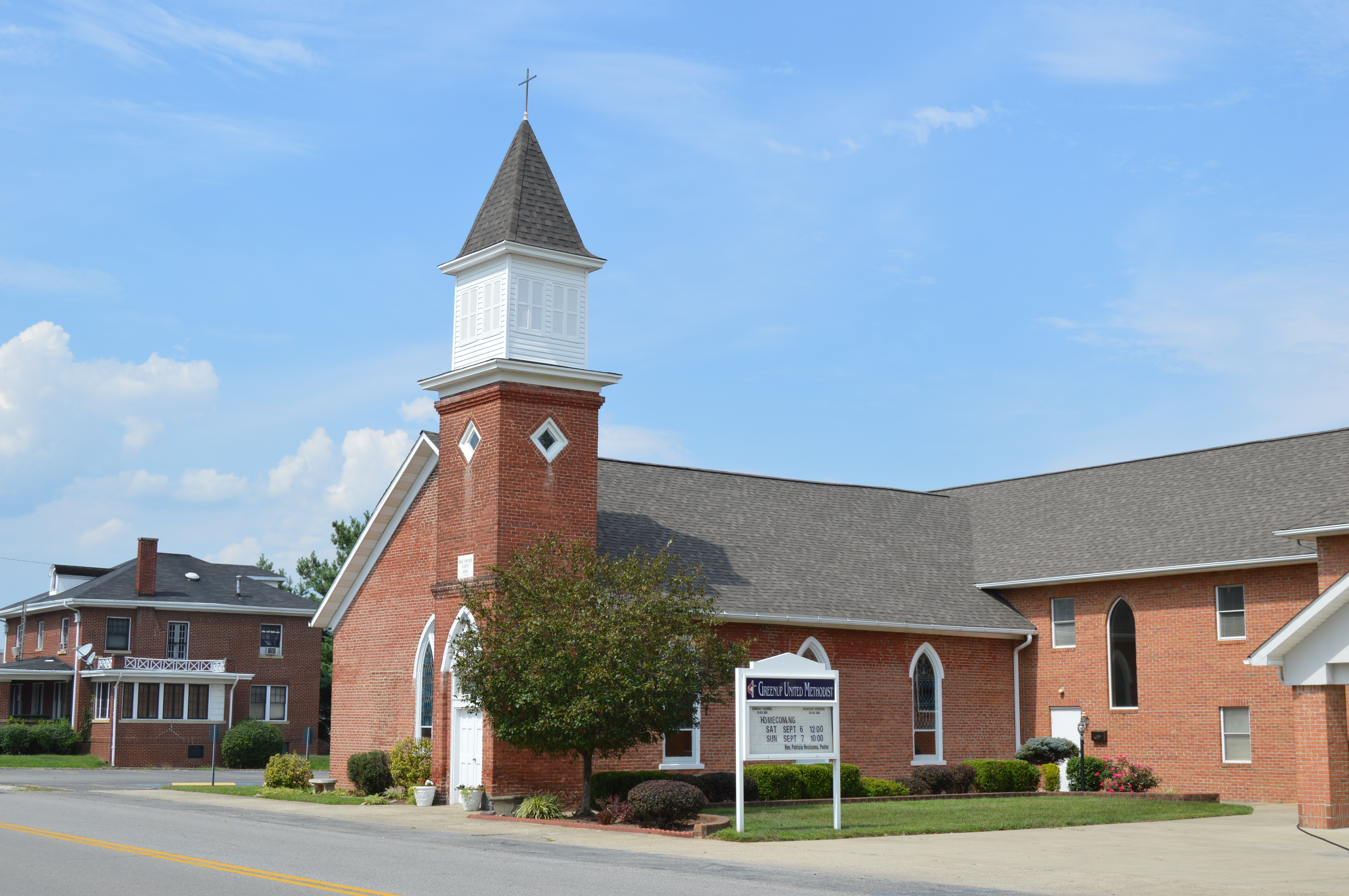 Eastern side and front of the Greenup Methodist Church, located at 607 Main Street (Kentucky Route 2541) in Greenup, Kentucky, United States. Built in 1845, it is listed on the National Register of Historic Places.